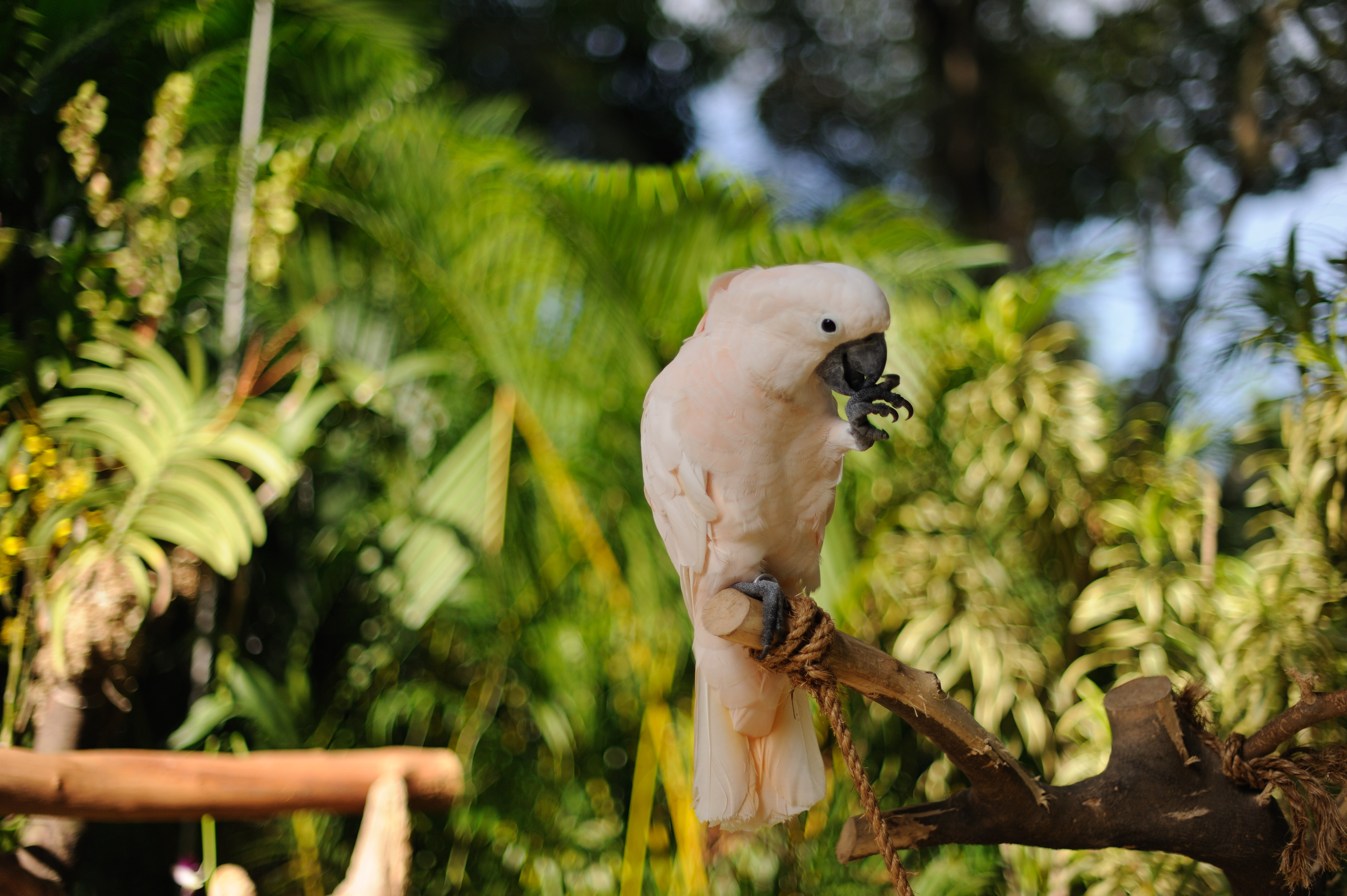 A Salmon-crested Cockatoo (also known as Moluccan Cockatoo) at Jurong Bird Park, Singapore.